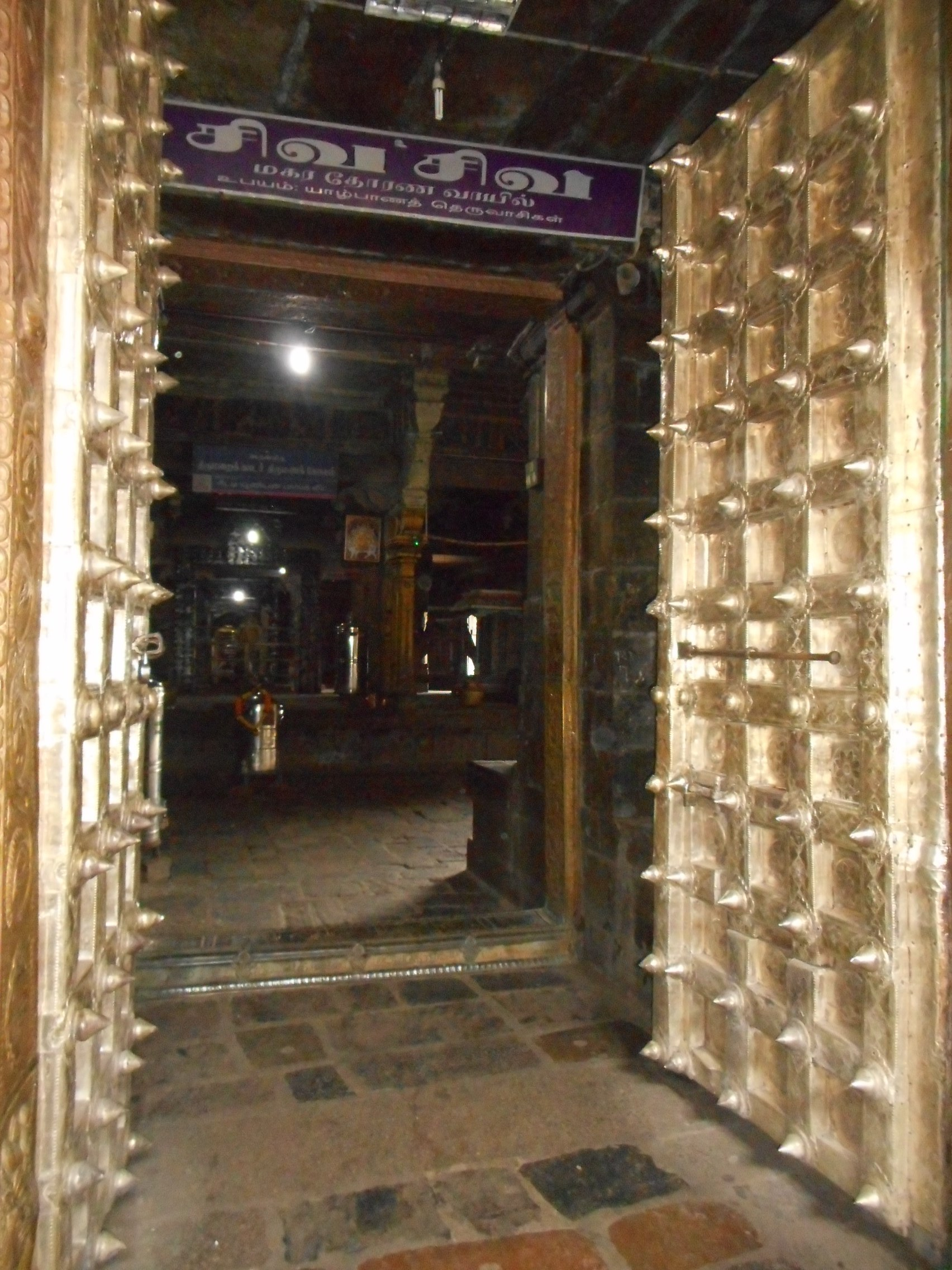 கருவறை செல்லும் வாயில் entrance to sanctum sanctorum